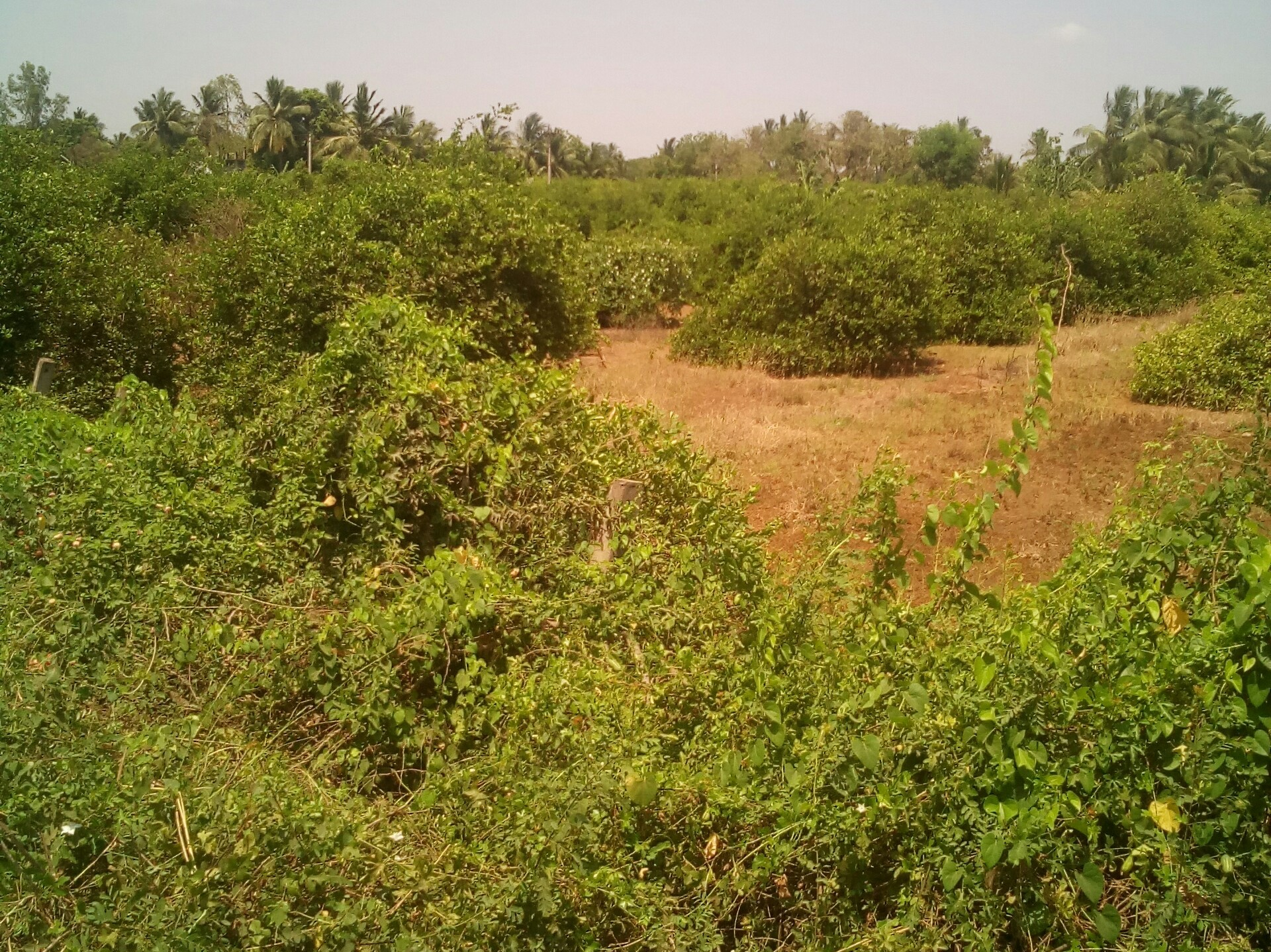 Lemon orchards at EdlapalliEdlapalli